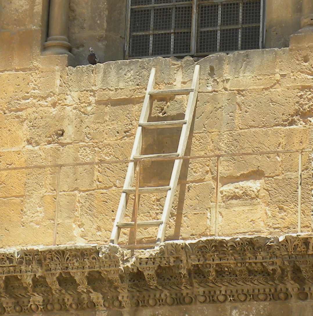 "Immovable ladder" on the facade of the Church of the Holy Sepulchre, Jerusalem.